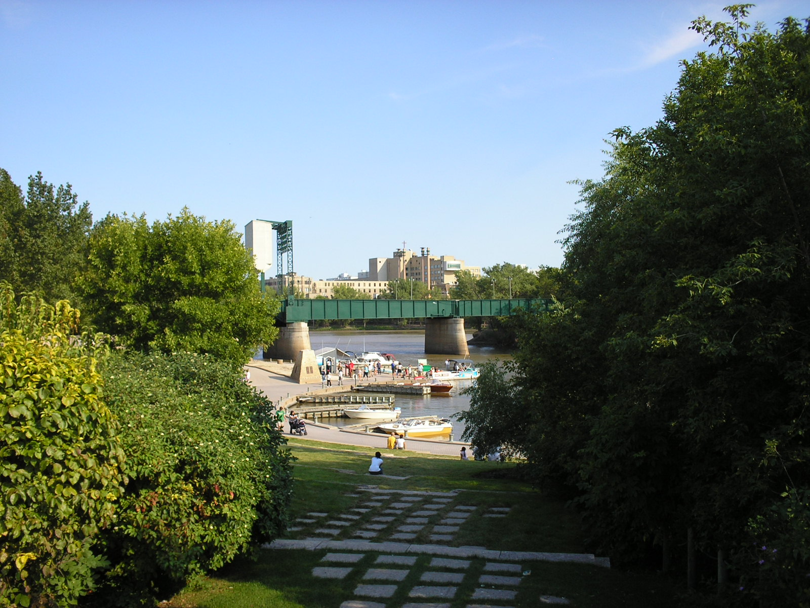 Le confluent des rivières Rouge et Assiniboine, au parc La Fourche dans le centre-ville de Winnipeg, Manitoba, Canada. Photo prise 3 septembre 2005. The fork of the Red and Assiniboine rivers, at The Forks park in downtown Winnipeg, Manitoba, Canada. Photo taken 3 September 2005.